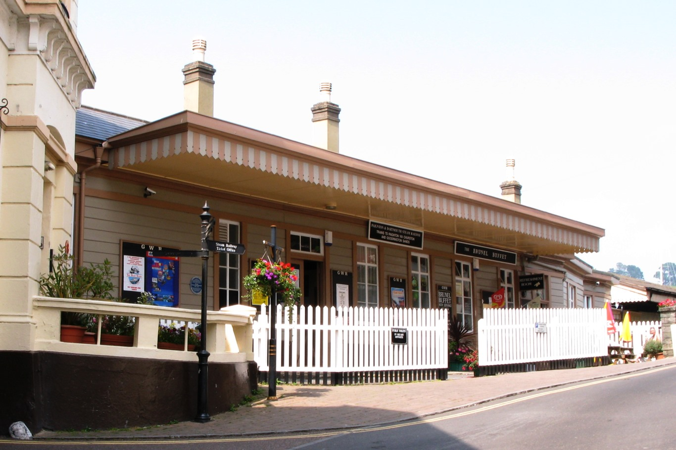 The road side of Kingswear station, terminus of the Dartmouth Steam Railway.